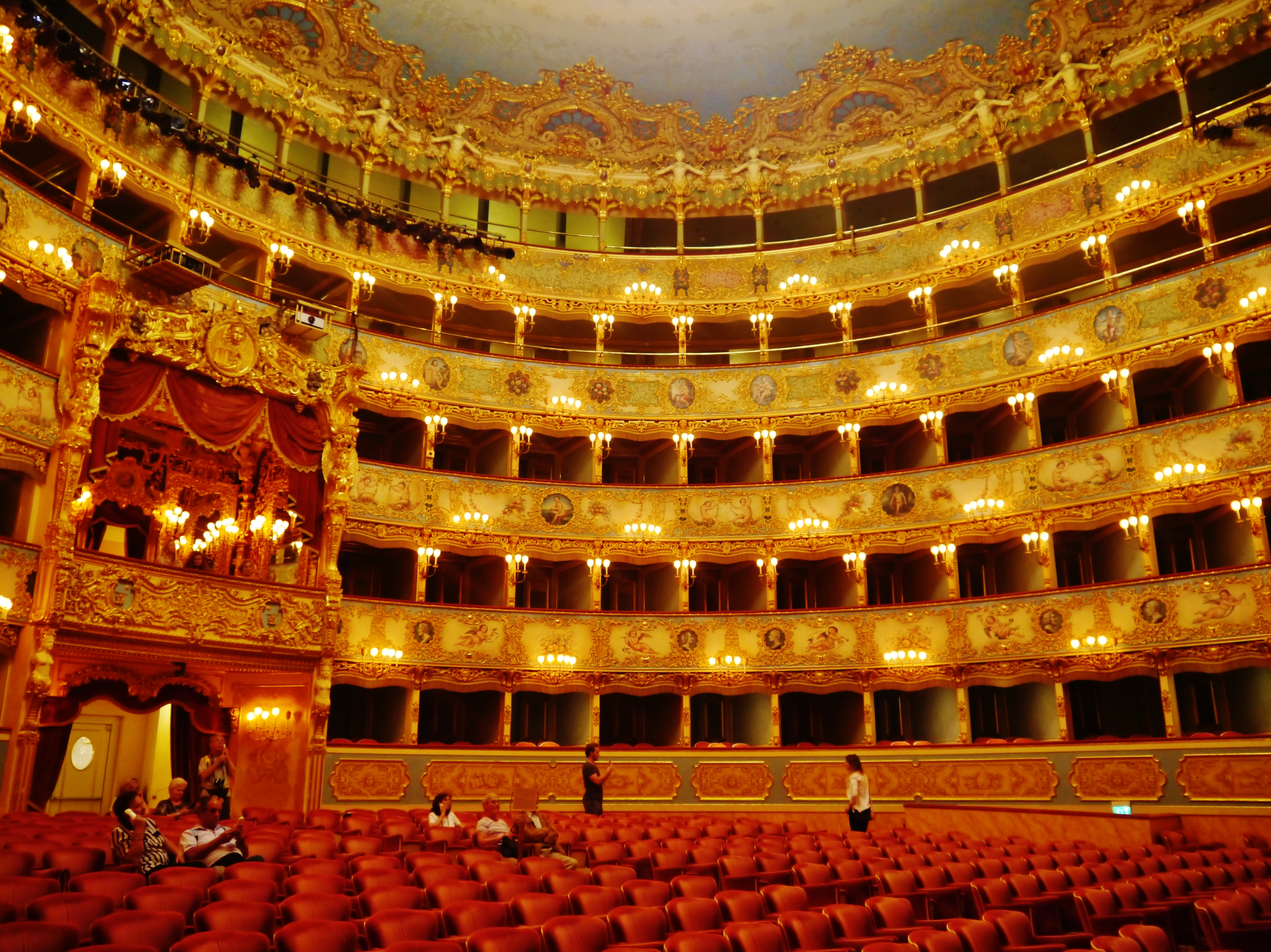 Grand Hall of the Fenice Theatre, Venice, Metropolitan City of Venice, Region of Veneto, Italy